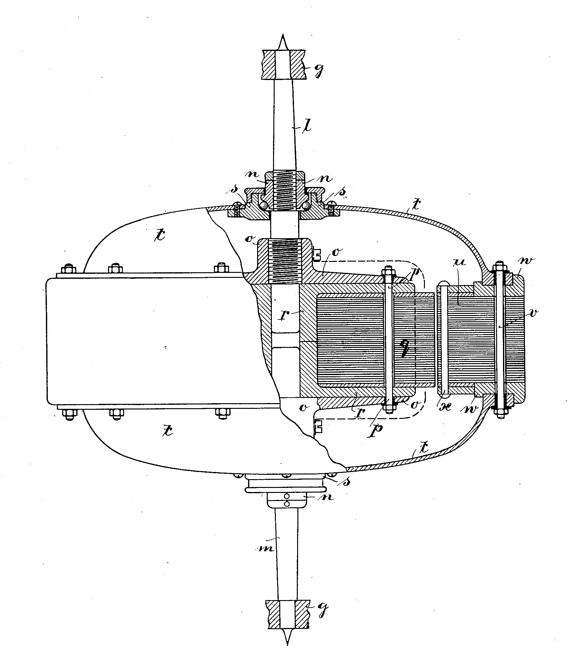 First External Rotor Motor by Emil Ziehl, patent drawing, US patent 662,484 (November 27, 1900).